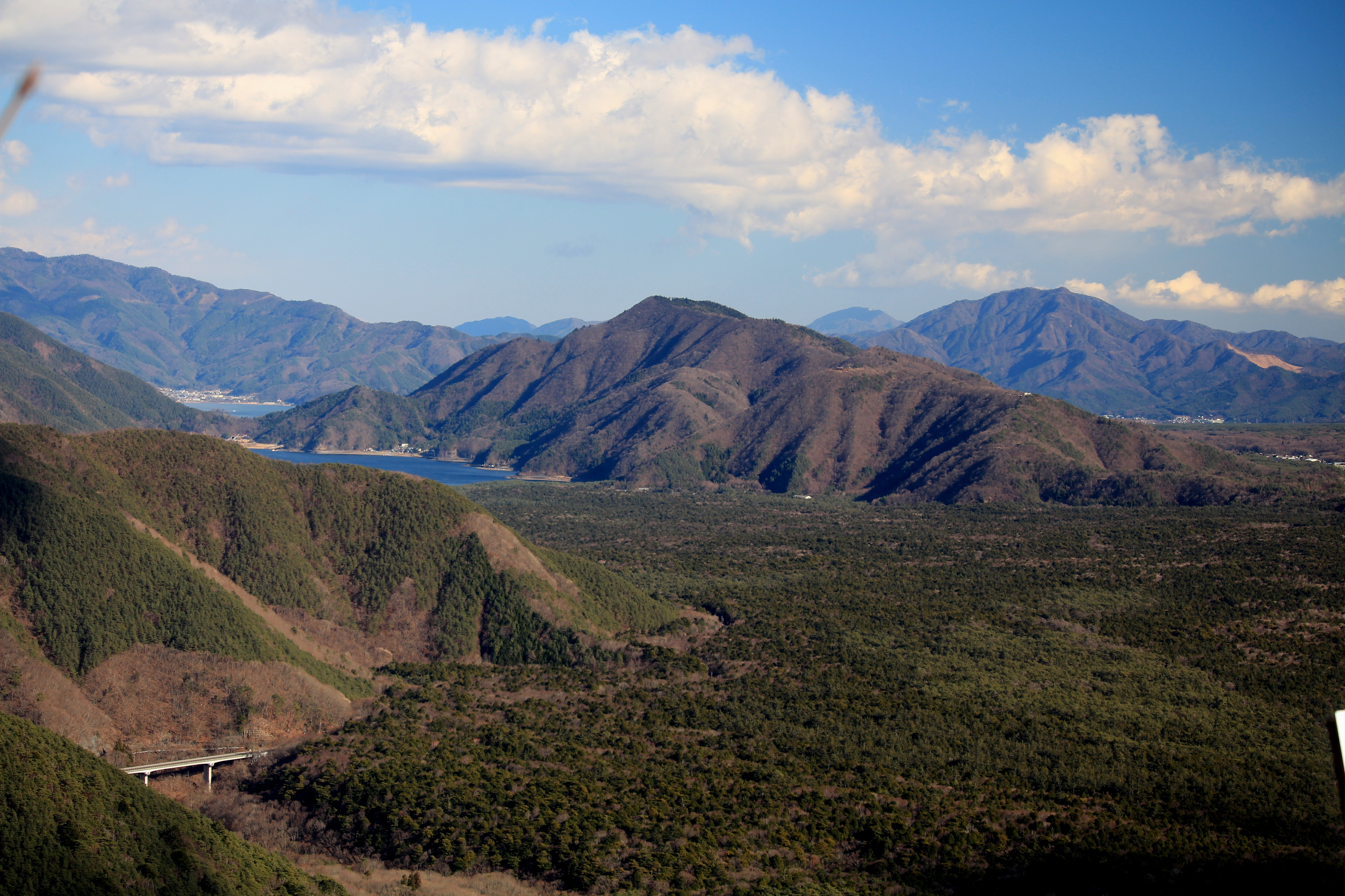 Aokigahara and Mount Ashiwada seen from Panoramadai (Misaka Mountains) in Yamanashi Prefectre, Japan.